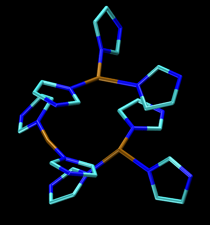 Cu3 site in the enzyme laccase